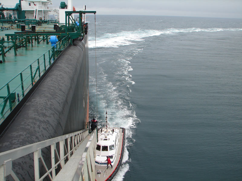 Pilot embarking on the oil tanker Algarve from a pilot boat.